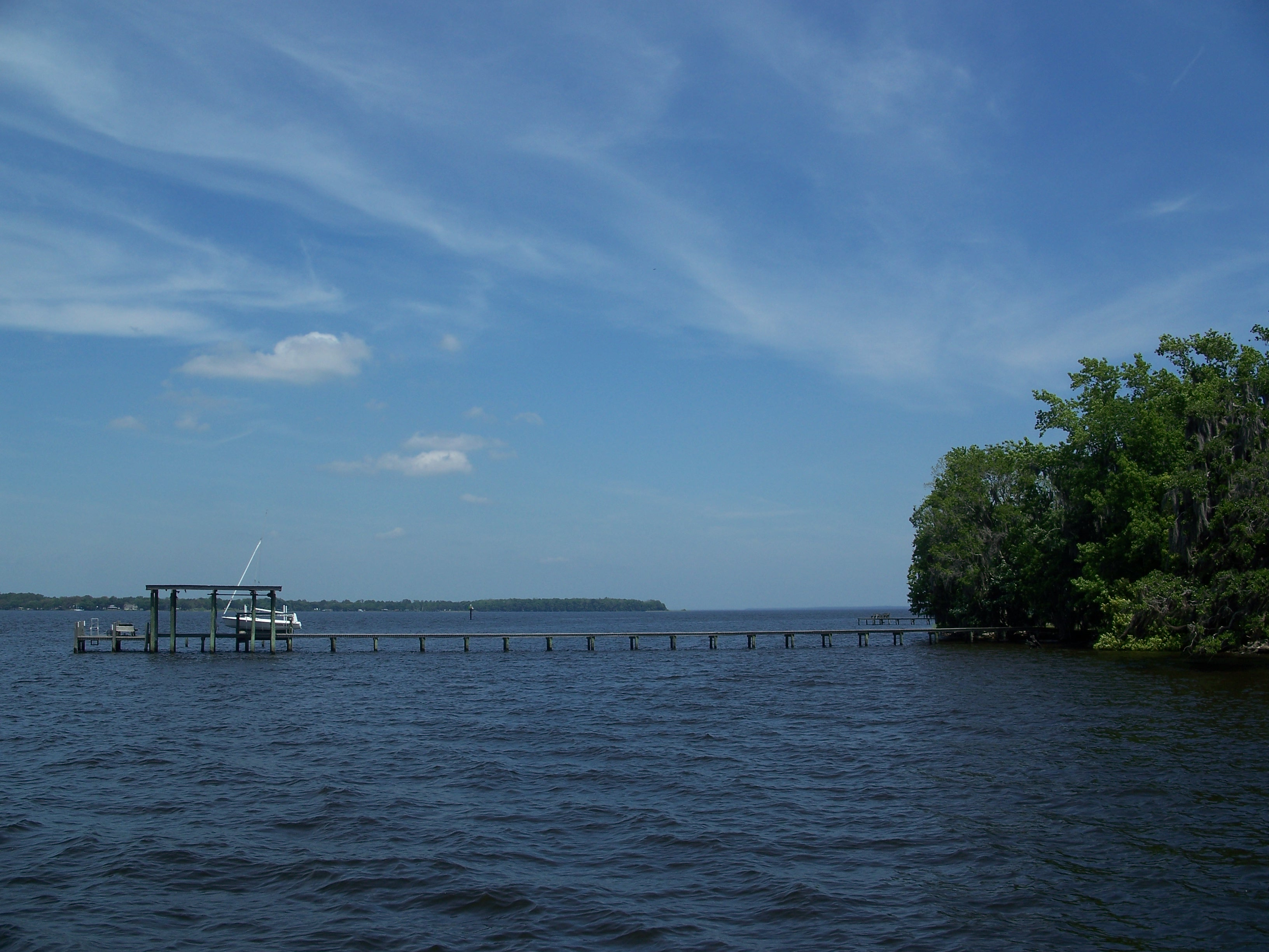 St. Johns River near Federal Point, Florida